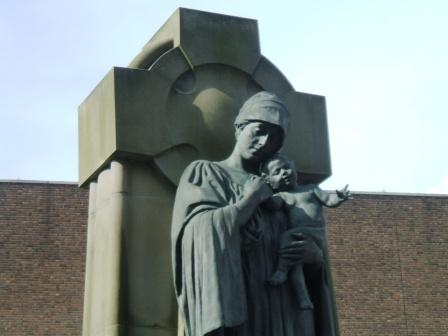 View of the Derby War Memorial